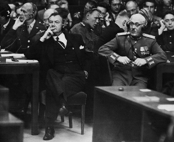 U.S. prosecutor Robert Houghwout Jackson (left) and Russian assistant prosecutor General Uri Pokrovsky at the Palace of Justice in Nuremberg.